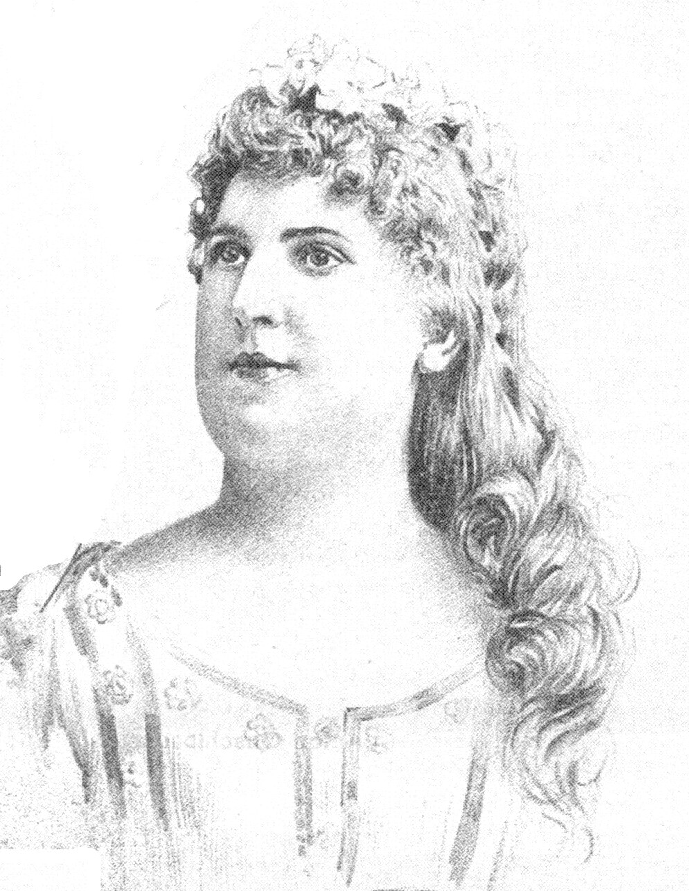 Portrait of Marie Brandis (1866-1906), Austrian singer.